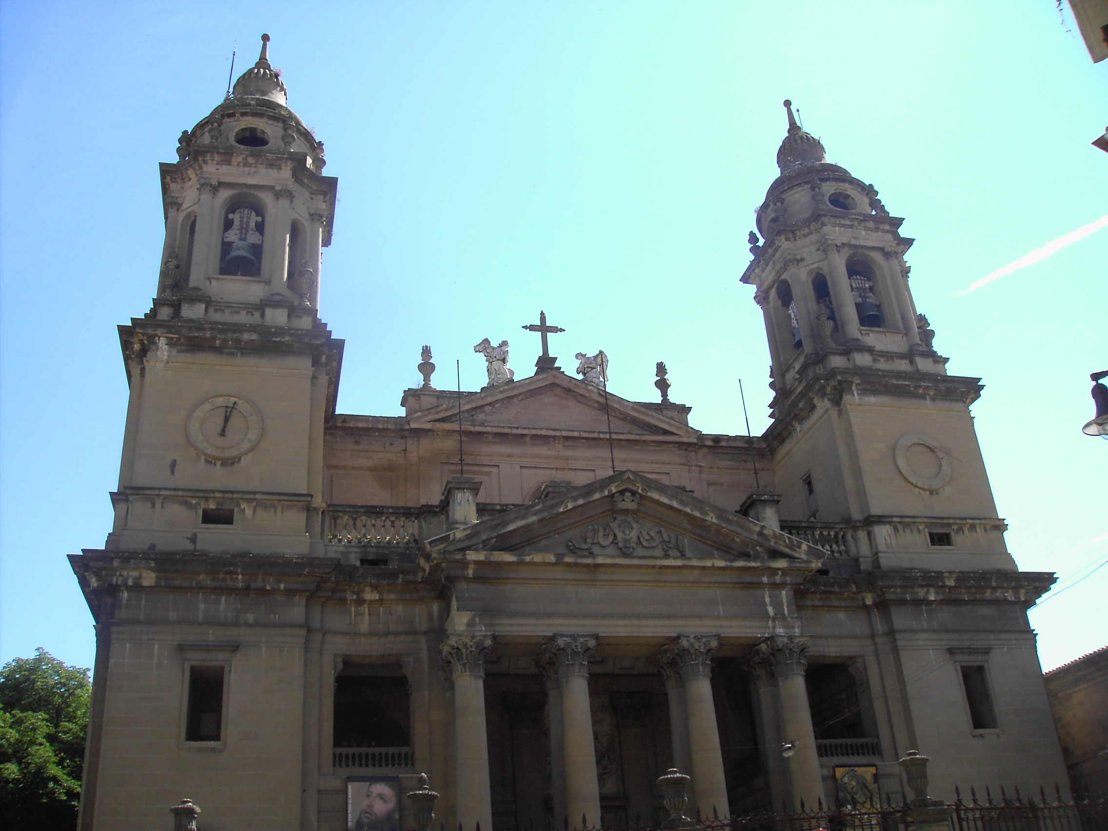 Neoclasique façade of Pamplona's cathedral